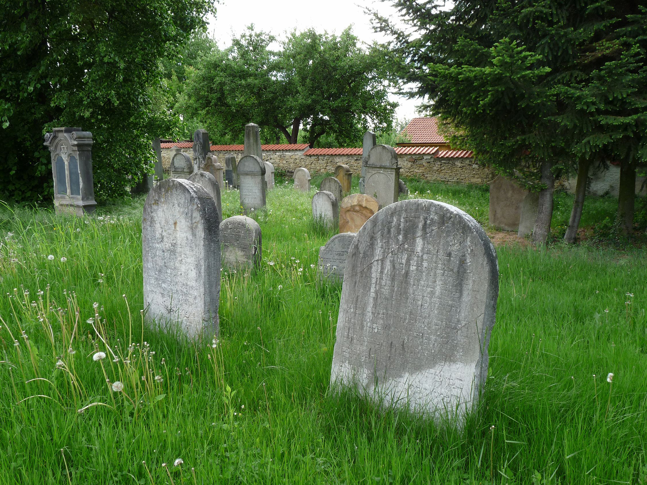 Jewish cemetery in the town of Kostelec nad Labem, Mělník District, Central Bohemian Region, Czech Republic